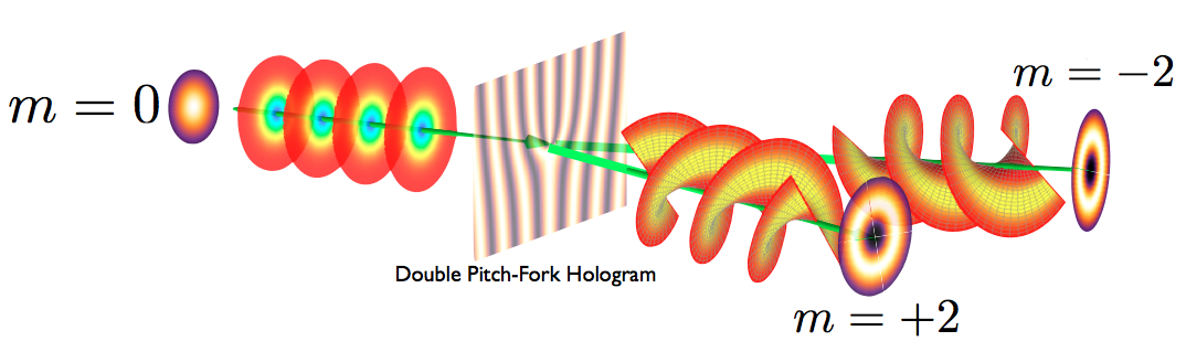 schematic of generating light orbital angular momentum starting from Gaussian beam.